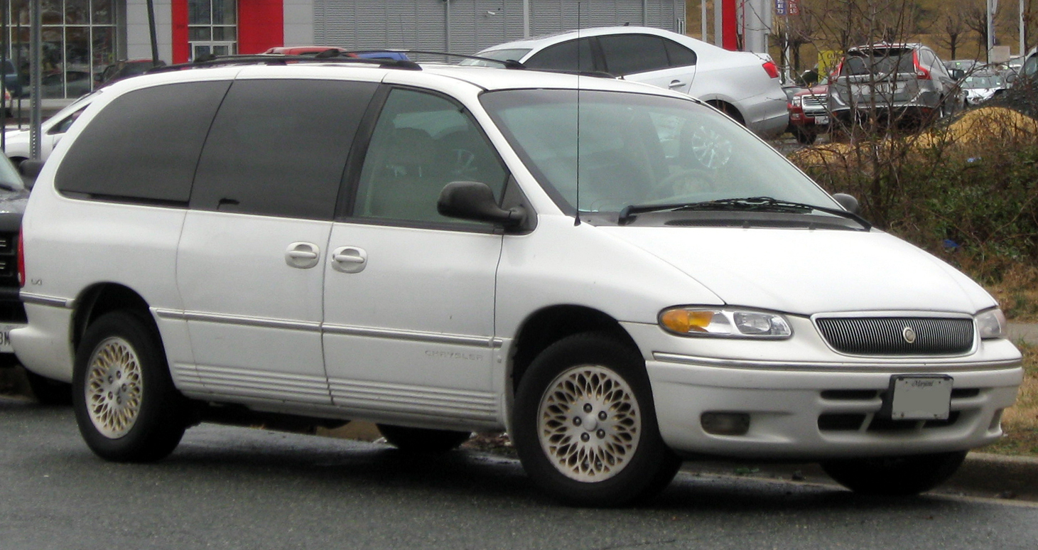 1996-1997 Chrysler Town & Country photographed in Silver Spring, Maryland, USA.